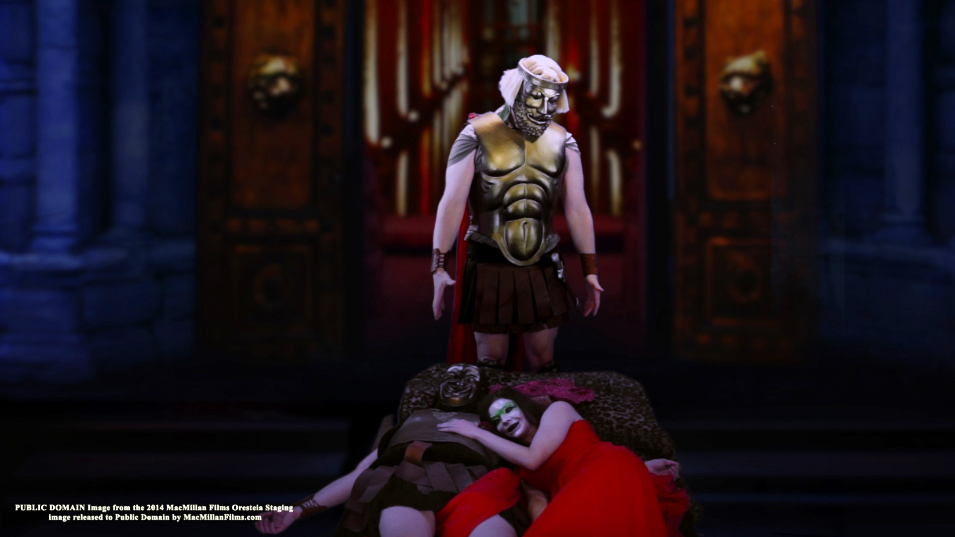 In Libation Bearers (the second play of three in the Oresteia) Orestes explains why he killed his mother in this climatic scene of the drama. This is a still from the MacMillan Films 2014 production of the Oresteia.